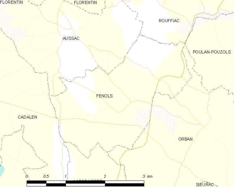 Map of French municipality Fénols